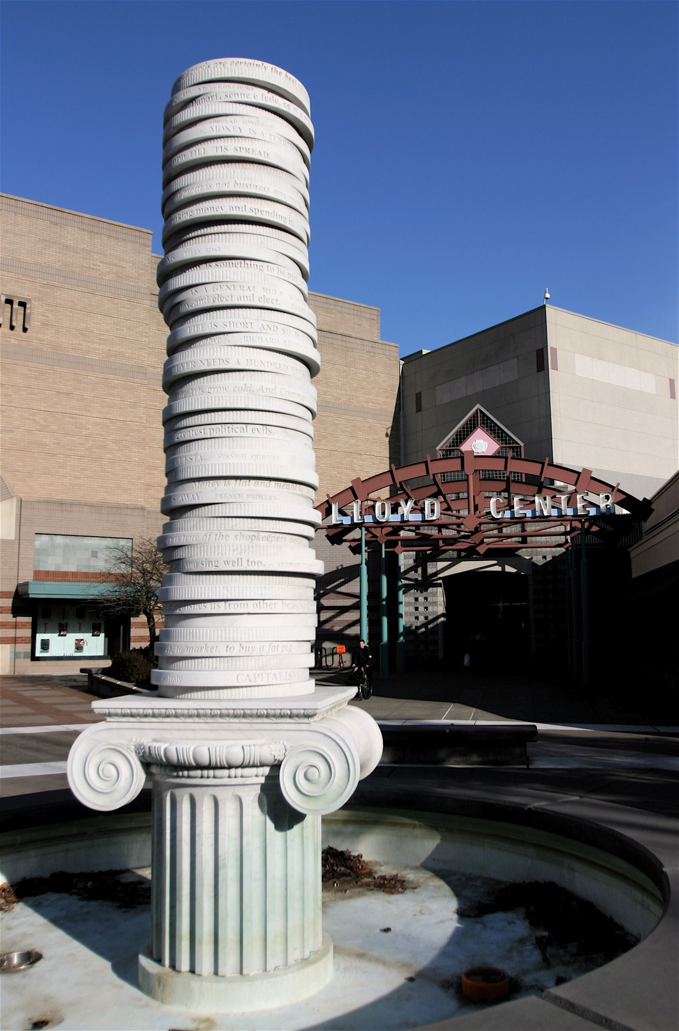 The southwest entrance to the Lloyd Center Mall in Portland, Oregon.